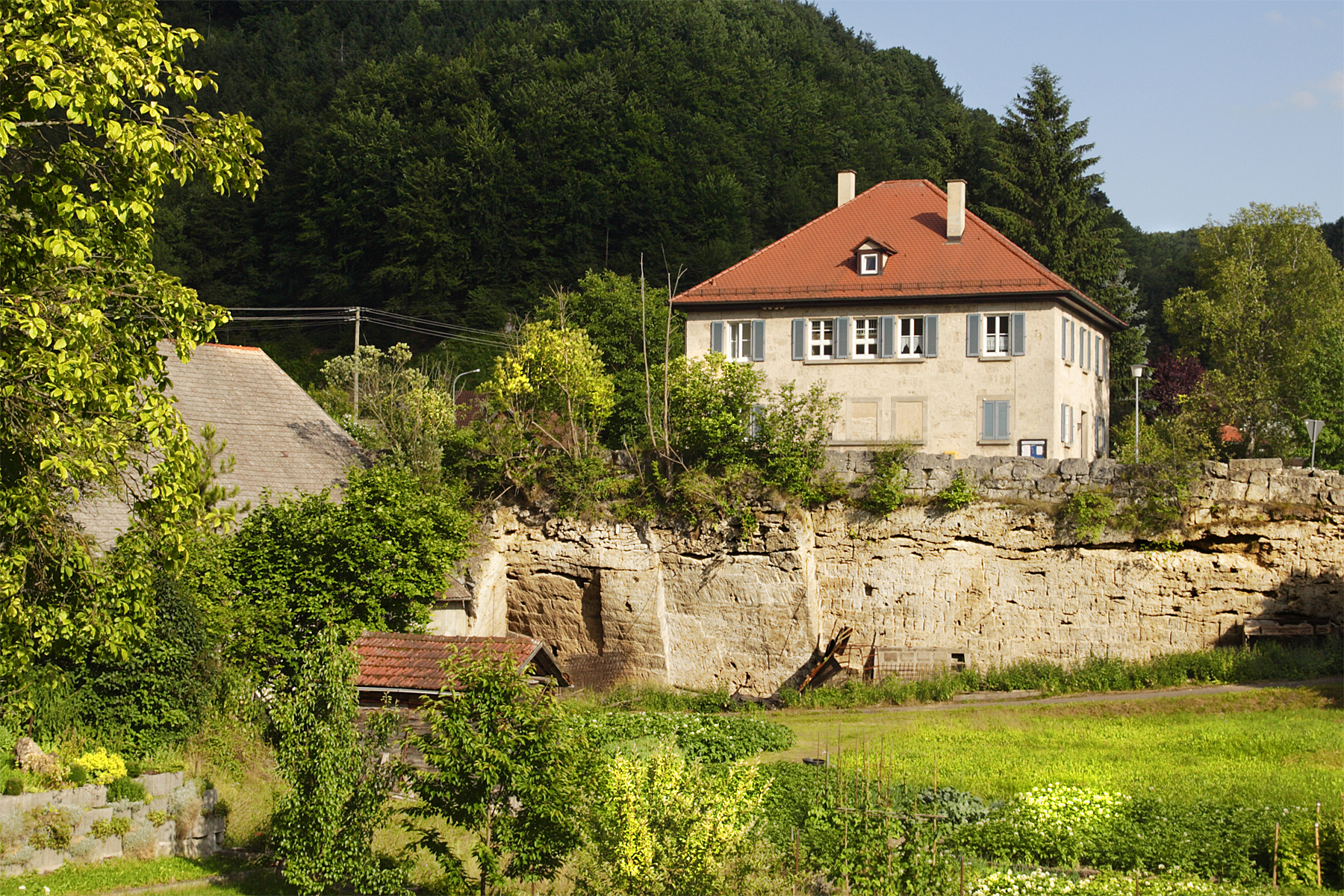 Parish House on top of a 36 m (!) sediment of calcareous tuff in the village of “Seeburg” (Bad Urach), Swabian Alb. Only the upper 6 m of the sediment of rivulet ”Erms” are visible, the rest is garden soil on top of the two rivulets’ floodplain. The karst spring’s water carried enormous amounts of calcareous tuff, which was chemically precipitated along eight terraces over 10 km. The first terrace, seen here, dammed up the branched valleys of rivulet “Fischbach”, thus forming the former lake “Bodenloser See”. Today, only the still well functioning long outlet tunnel, draining rivulet Fischbach since 1616 (!), exists. The constructor, “Heinrich Schickardt”, is famous for many constructions, he did under the authority of the Duke of Württemberg.